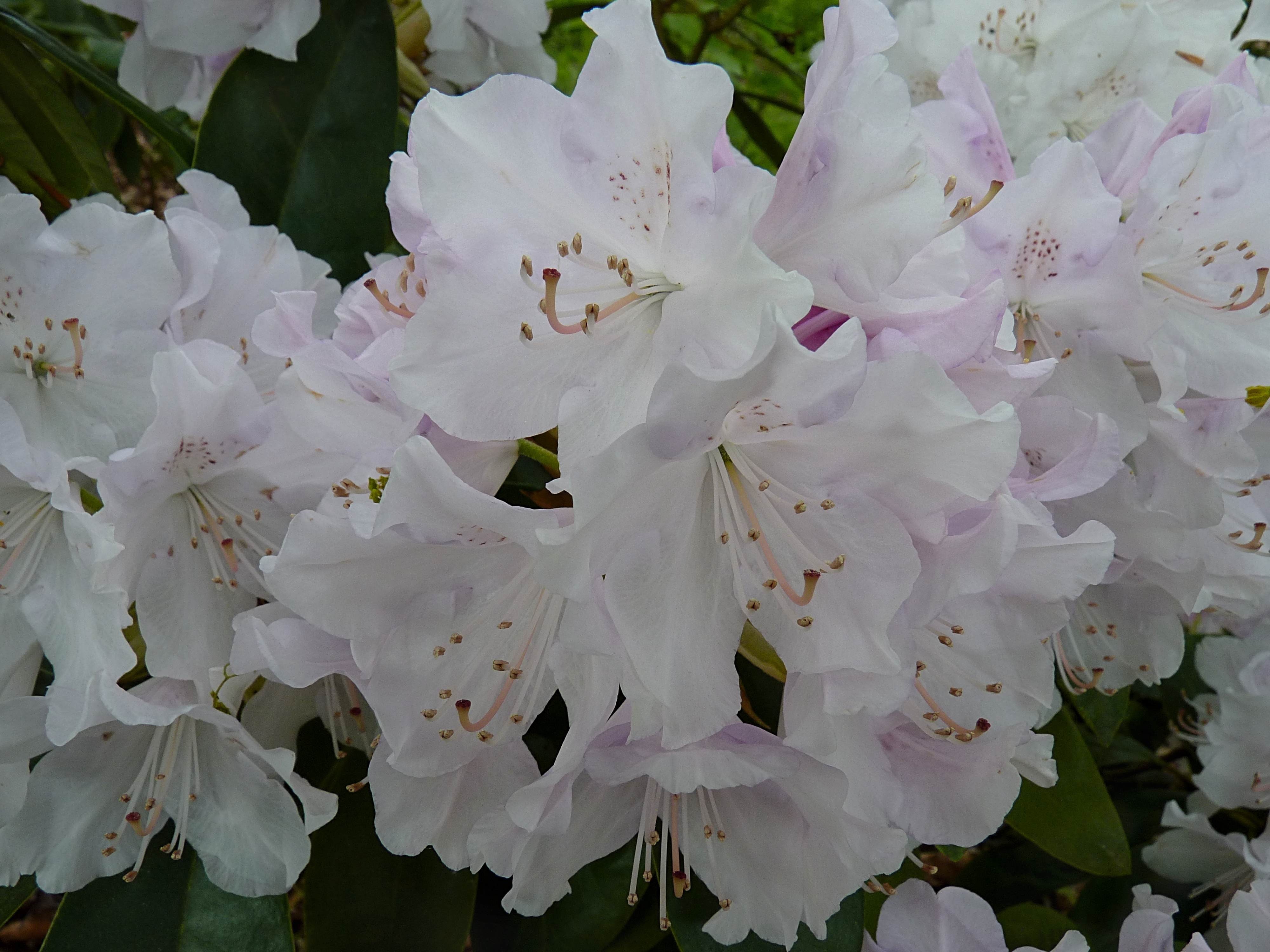 Rhododendron 'Jewess' in the park of "La feuillerie" in Celles, Belgium.